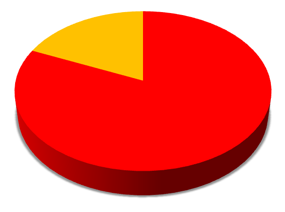 Expressed as a pie chart in the Nagasaki gubernatorial election in 2014, the number of votes for each candidate. explanatory notes ■ - Hodo Nakamura ■ - Toshihiko Haraguchi